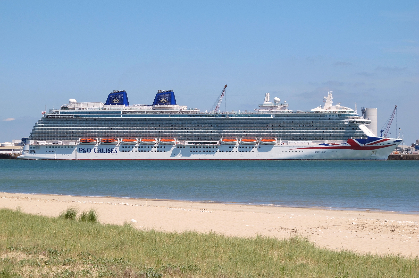 P&O cruise ship MV Britannia seen from the Île de Ré, at the port of La Rochelle-Pallice (Charente-Maritime France) May 28, 2015. IMO Number: 9614036 MMSI Number: 235106595 Call sign: 2HHG5 Length: 330.00 m Beam: 44.00 m